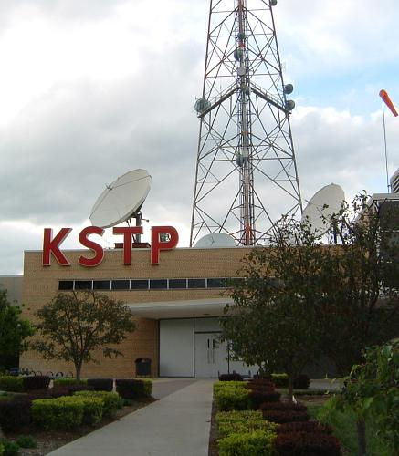 Entrance to studios of KSTP television/radio along University Avenue in Saint Paul, Minnesota.